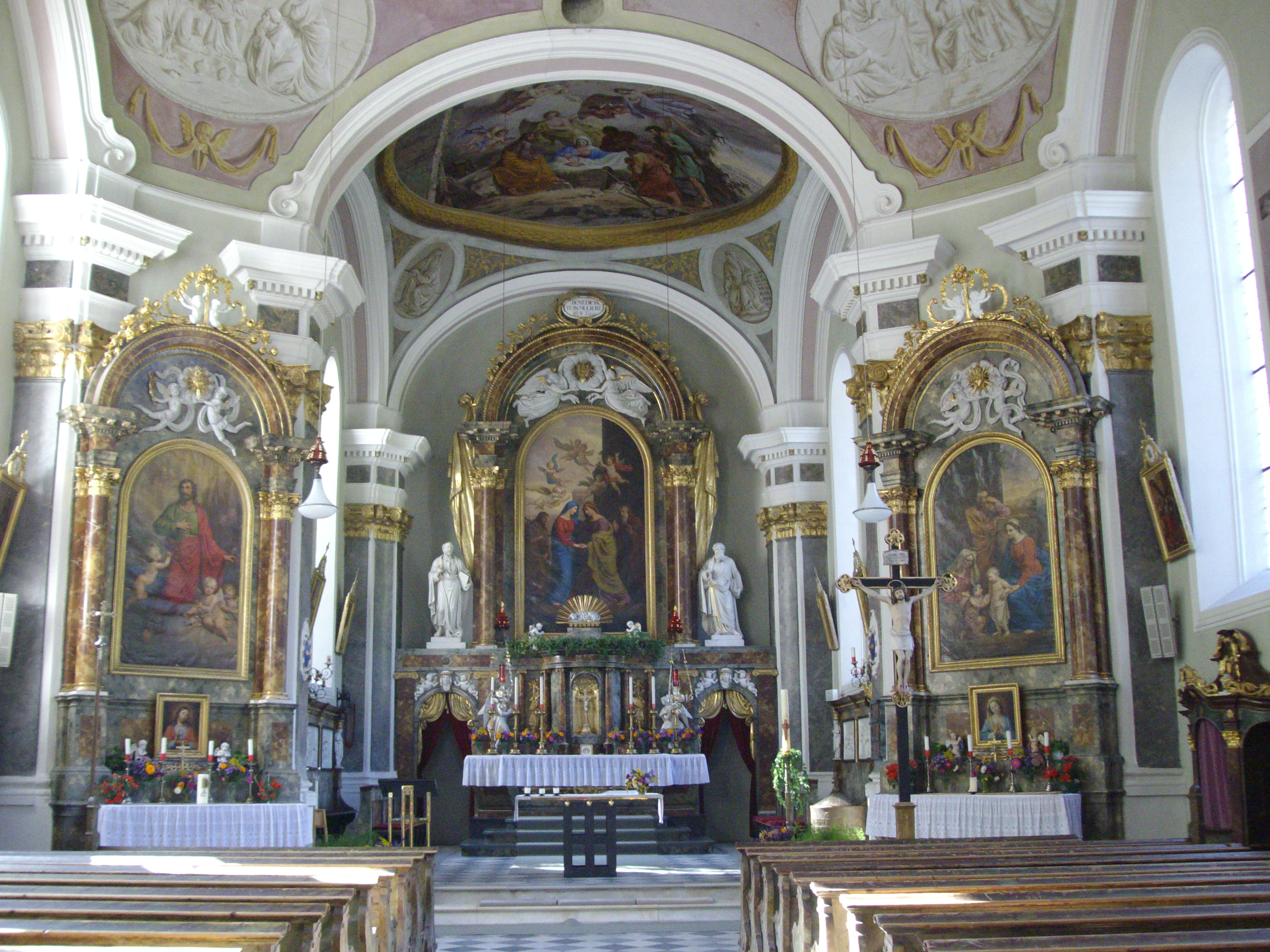 Austria, Tyrol (state), Gries am Brenner. Interior view of "Maria Heimsuchung".